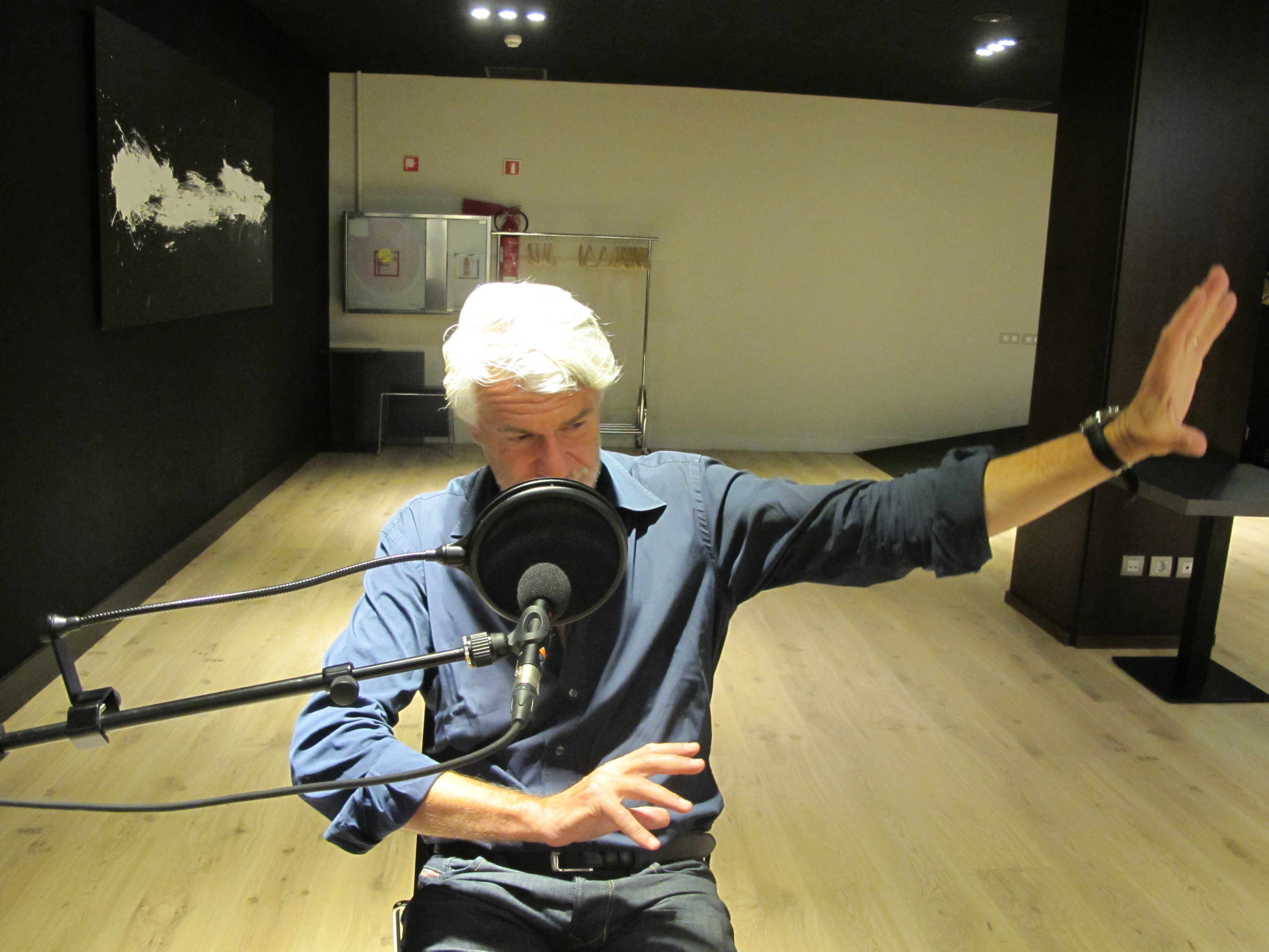 Foto: MACBA, 2013